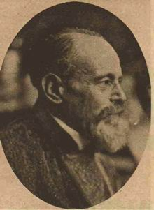 Hans Otto Julius Schadow (1862-1924) German Painter